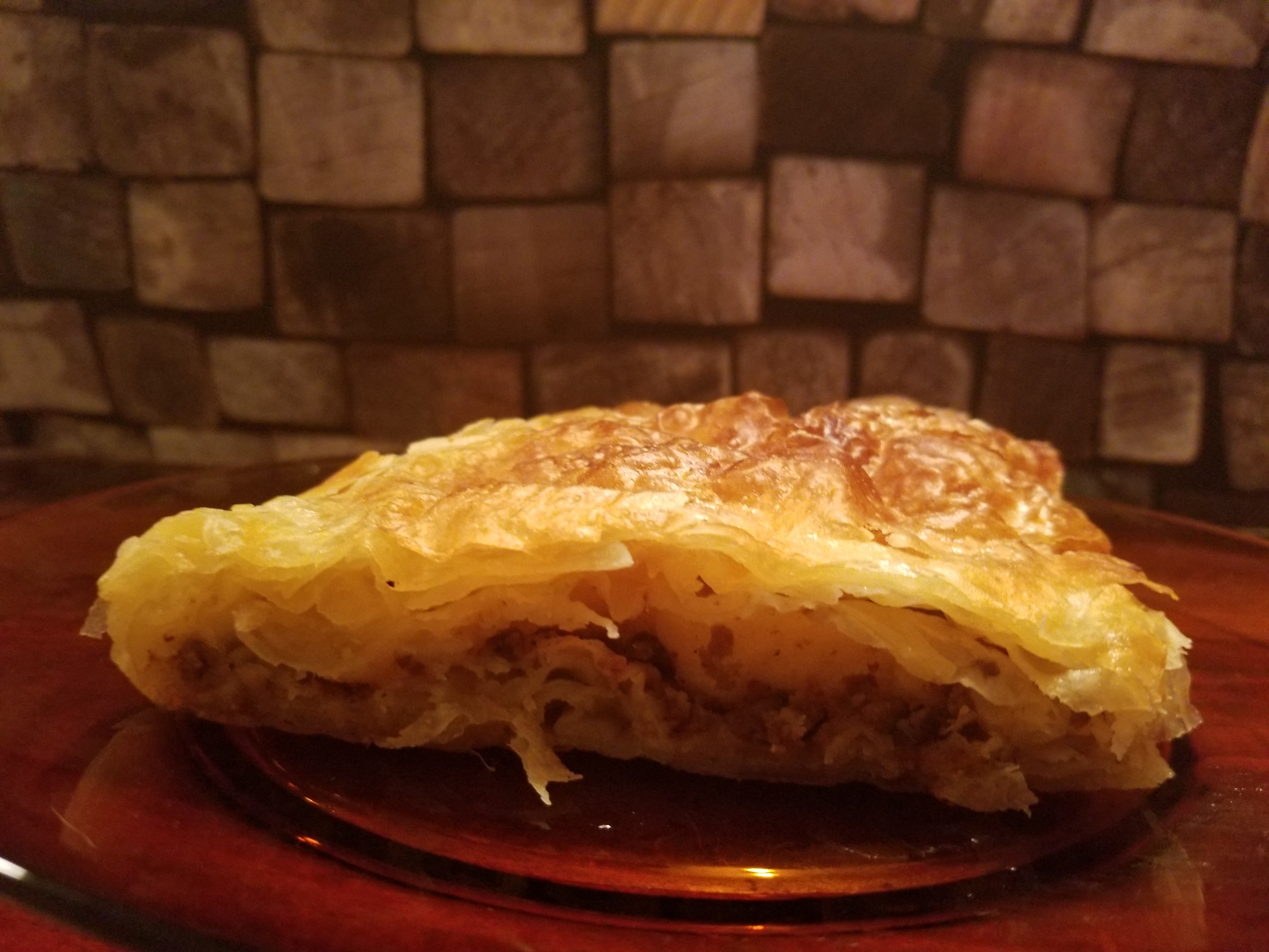 Burek